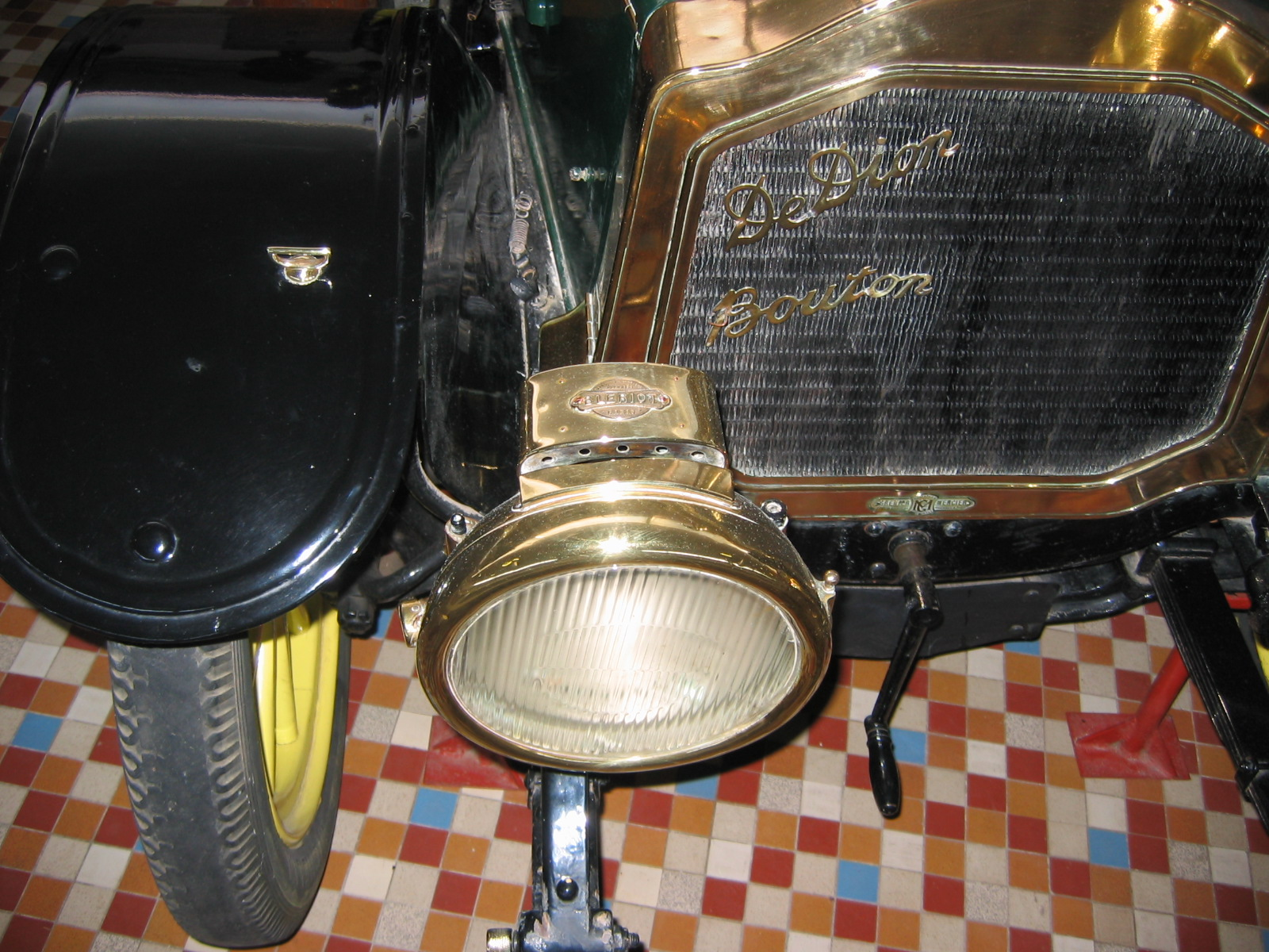 Bleriot Headlight on a De Dion-Bouton car Picture : Gérard Delafond